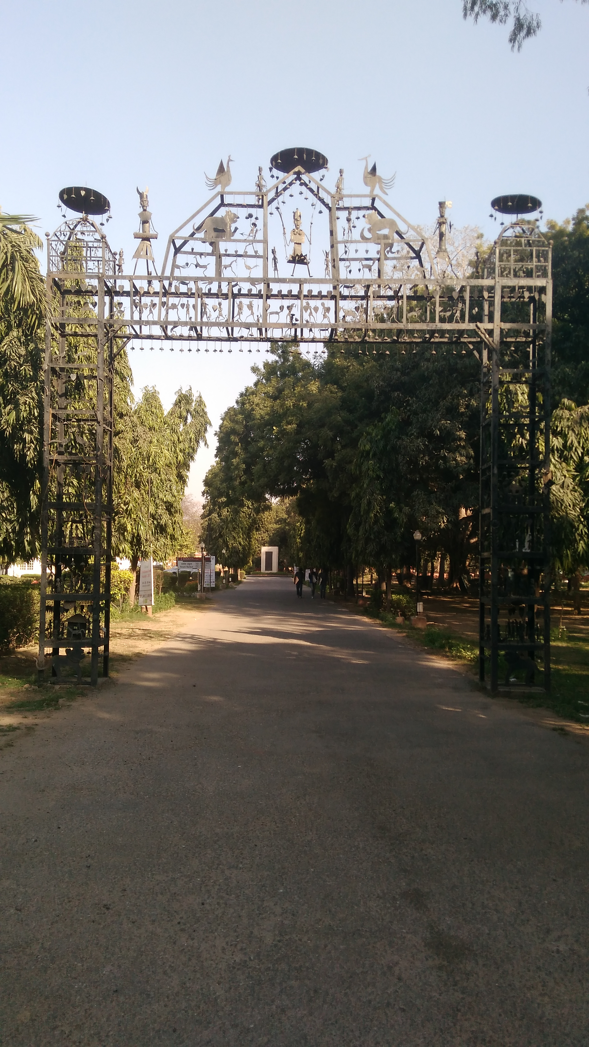 Chhattisgarhi gate at Indira Gandhi National Center for Arts, New Delhi